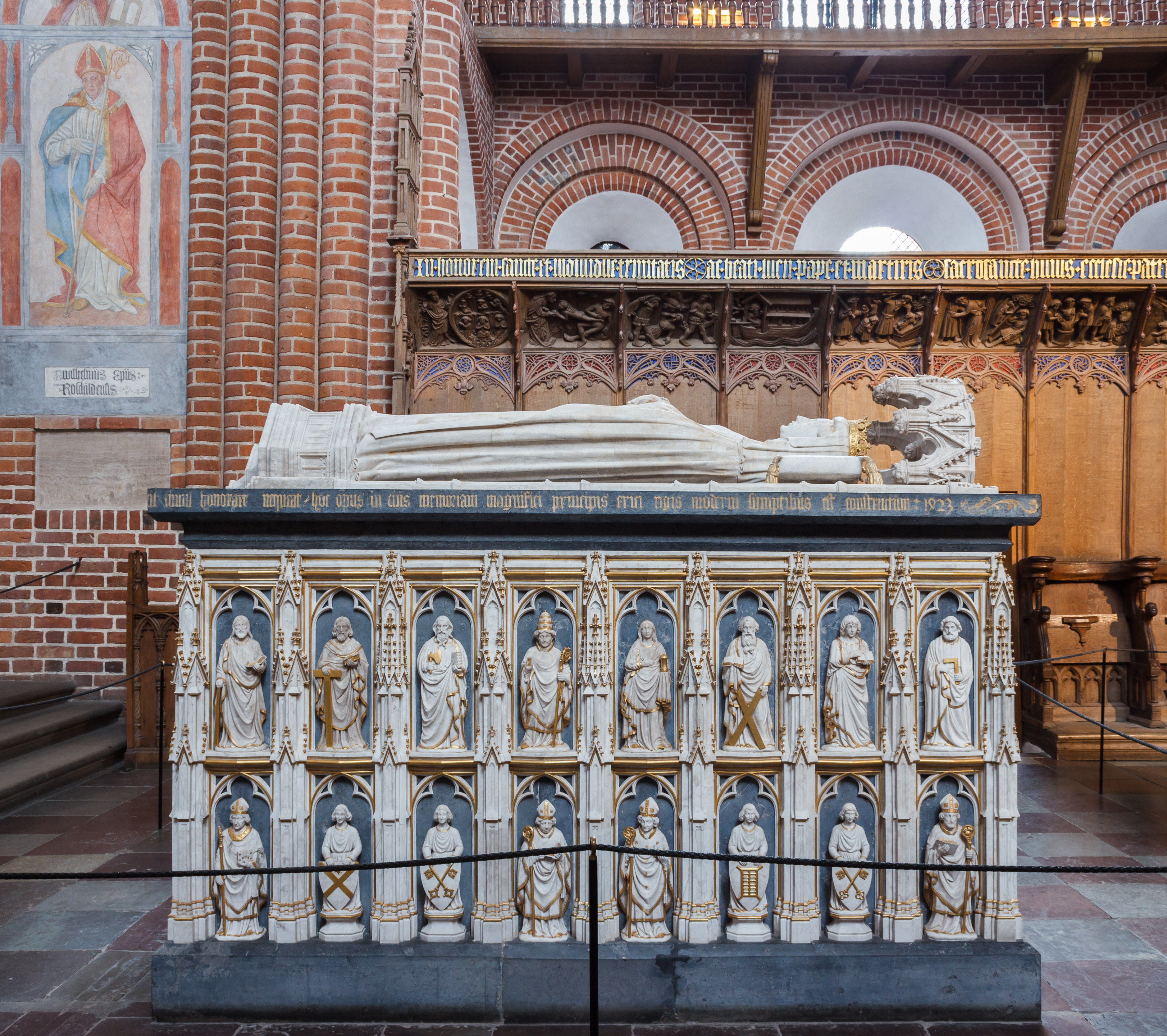 Sarcophagus of Danish Queen Margrethe I, Roskilde Cathedral, Roskilde, Denmark